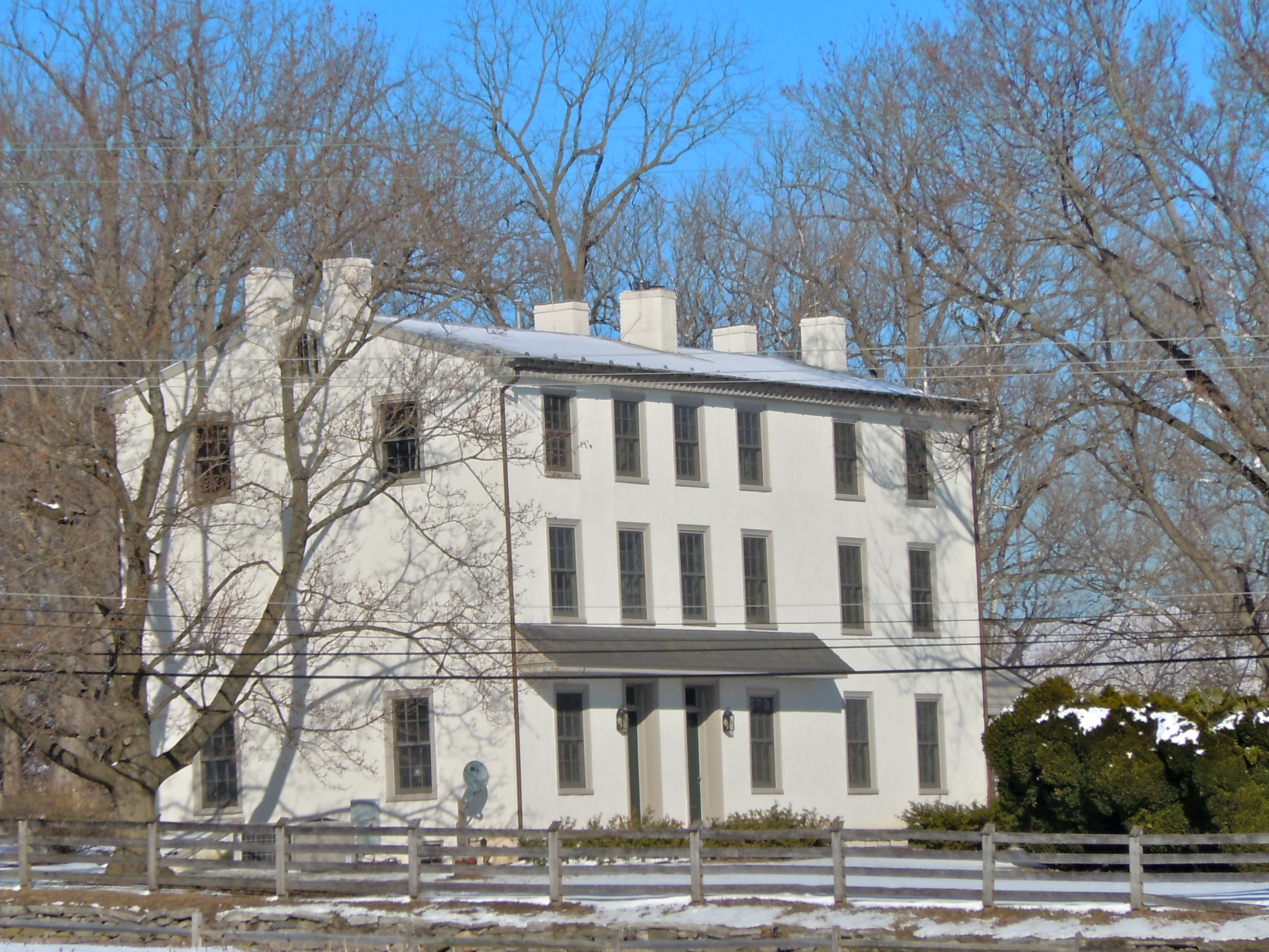 House at NRHP site "Cyrus Hoopes House and Barn" On NRHP since November 26, 1985. On Springdell Road, West Marlborough Township, Chester County, Pennsylvania